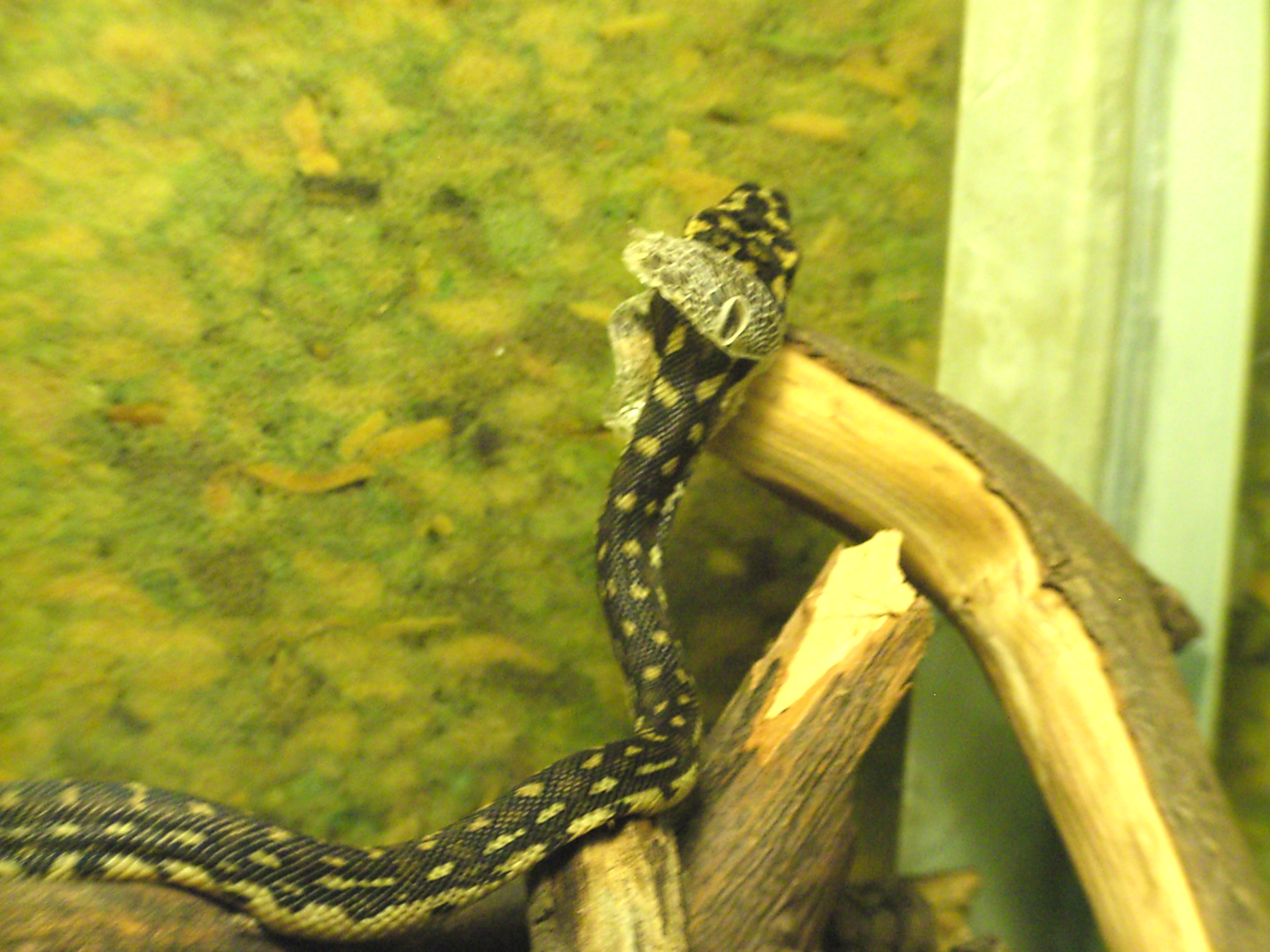 Diamond Python beginning a moult of its skin. The eye scales are visible as the moulting skin peels from the head first.